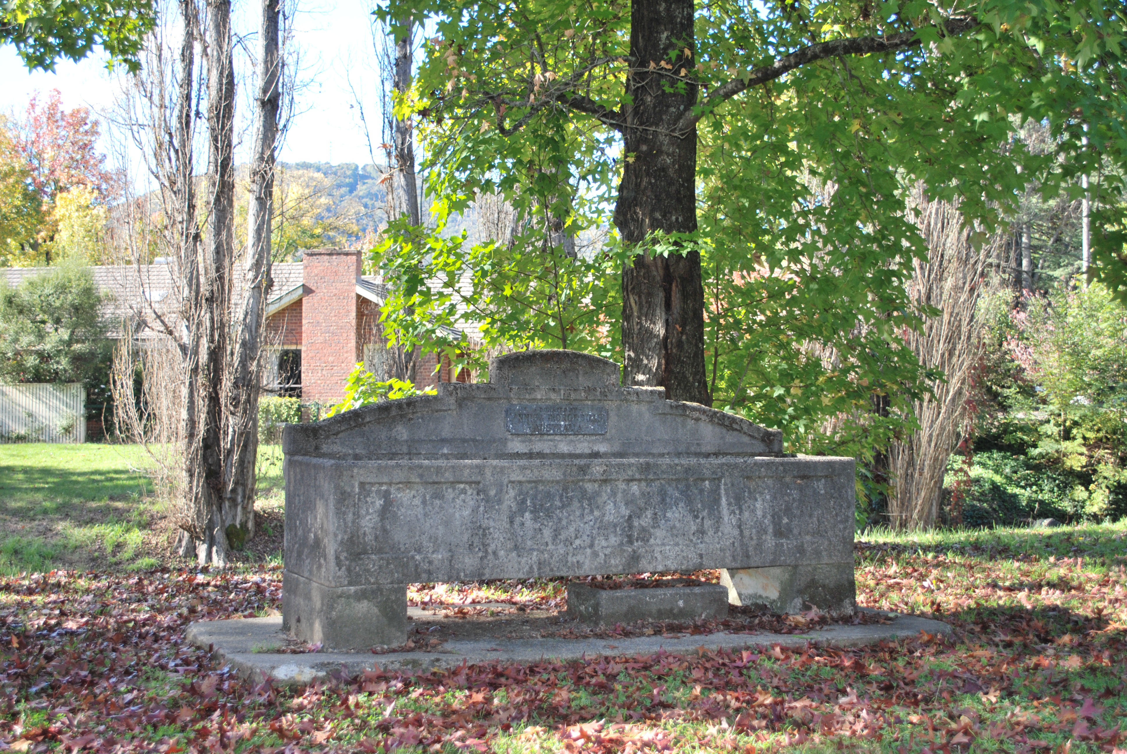 Bills horse trough at Bright, Victoria